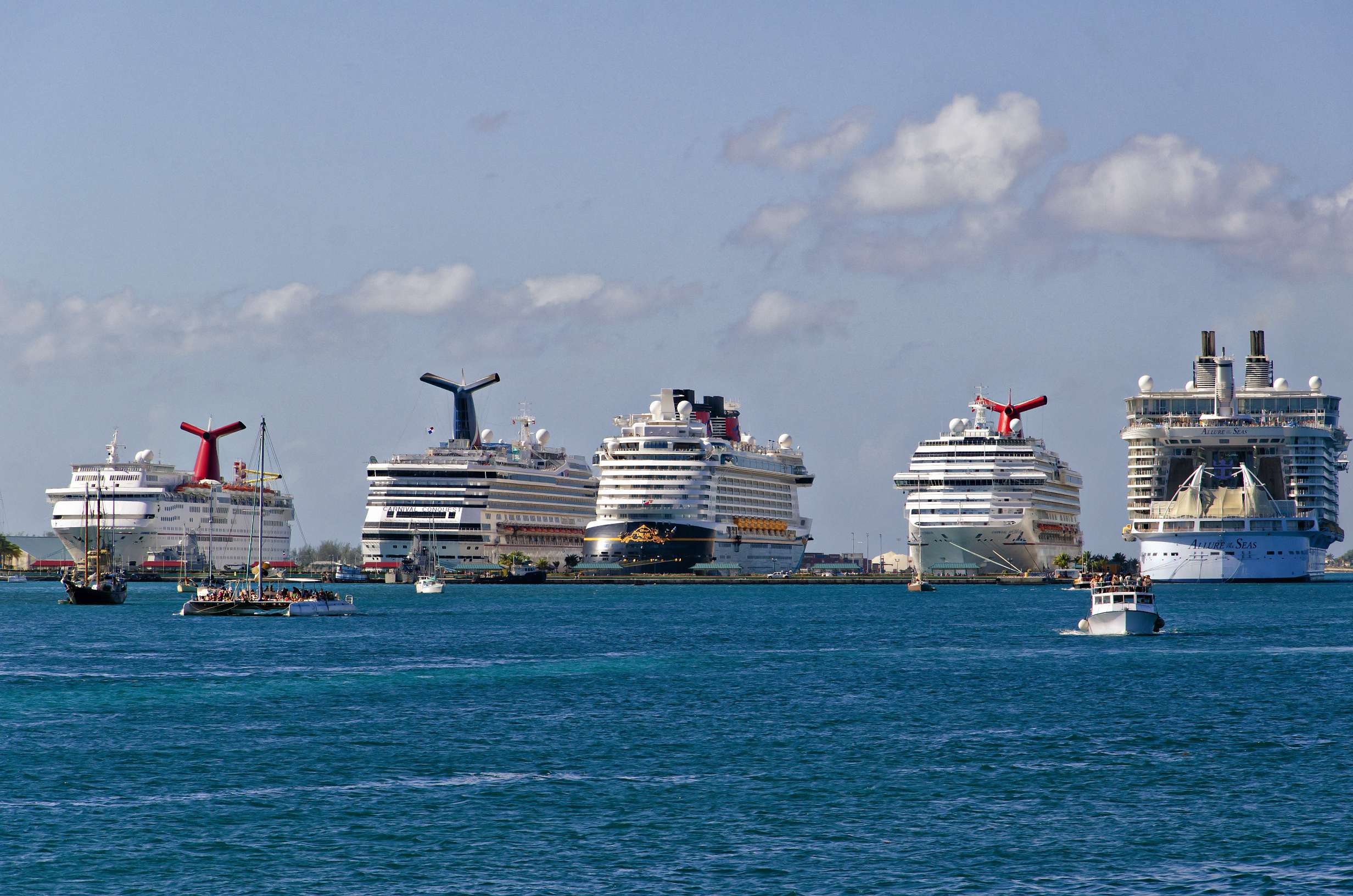 From left to right: Carnival Fantasy, Carnival Conquest, Disney Dream, Carnival Splendor, and MS Allure of the Seas in Nassau, Bahamas.